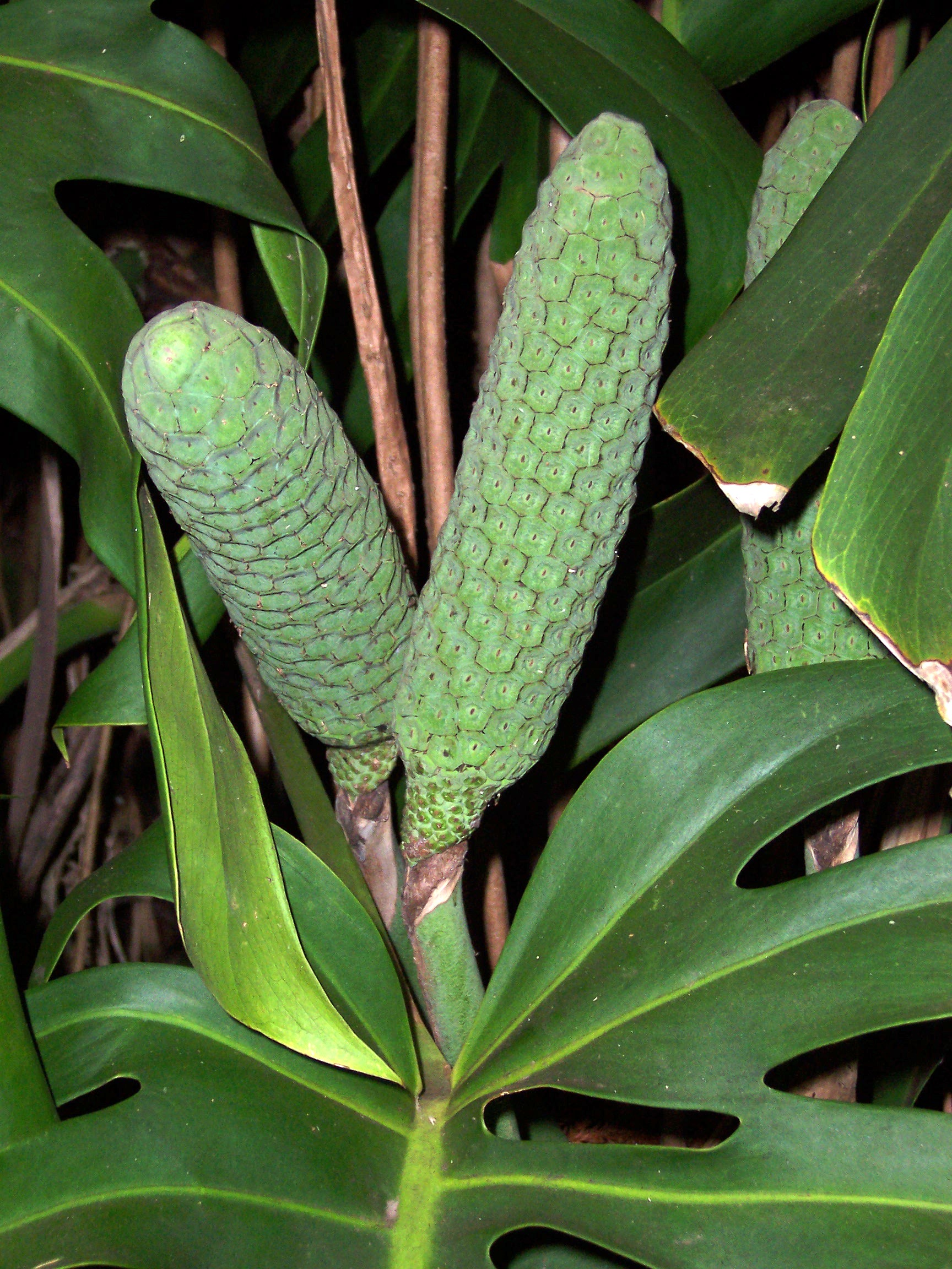 Immature fruits of Monstera deliciosa. Photo taken on Réunion island